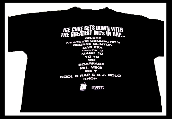 The reverse side of a promotional Ice Cube t-shirt for his compilation album Featuring...Ice Cube. The photograph was taken with an unknown digital camera and edited using ArcSoft PhotoStudio 5.5